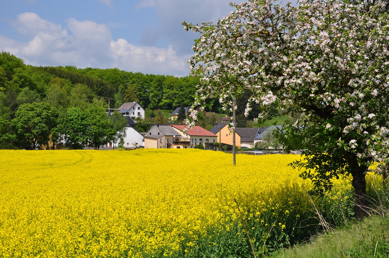 View of Hüttingen bei Lahr, Rhineland-Palatinate, Eifel, Germany